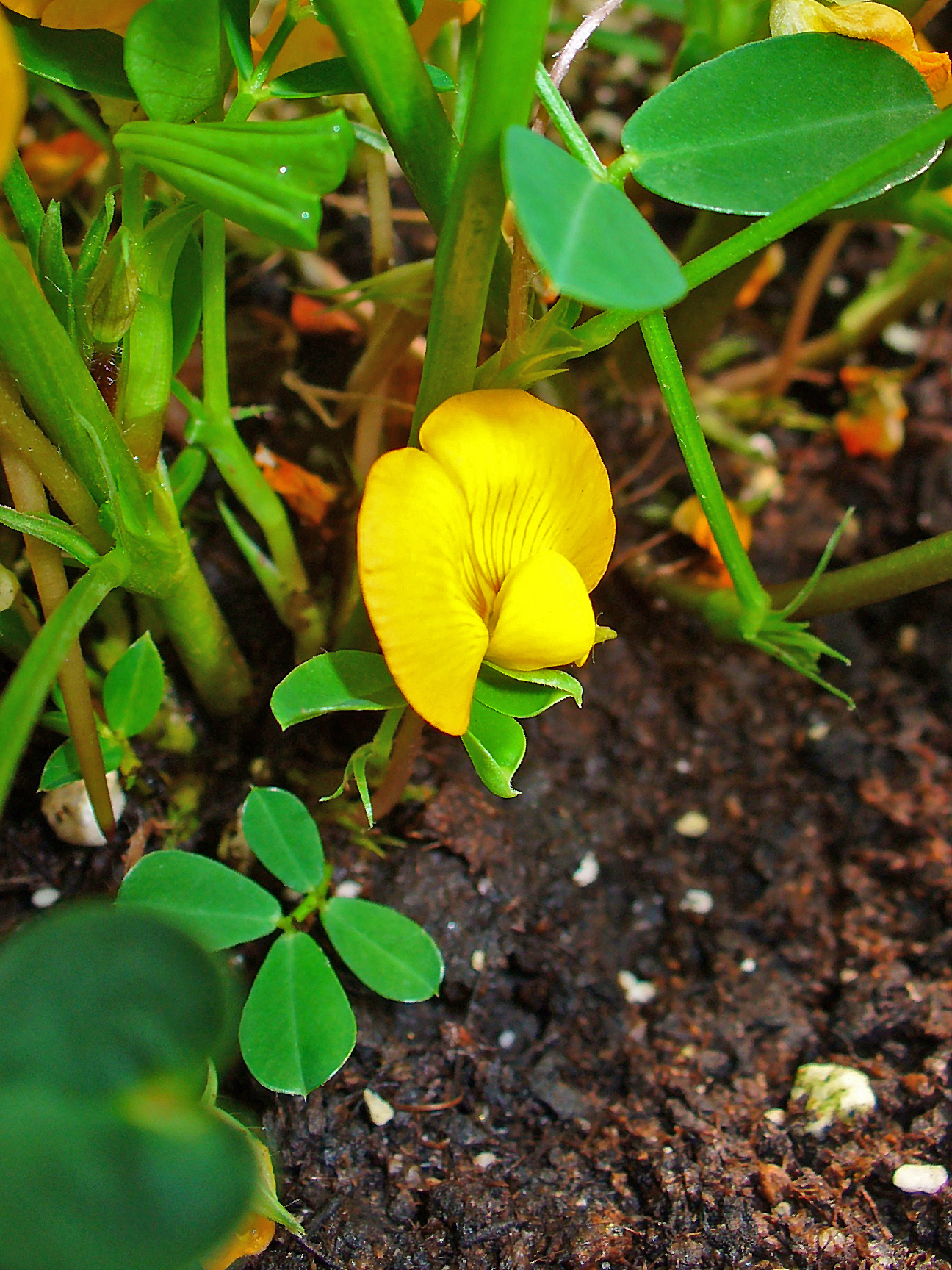 Arachis hypogaea, Fabaceae, Peanut, Groundnut, flower; Botanical Garden KIT, Karlsruhe, Germany. The dried fruits are used in homeopathy as remedy: Arachis hypogaea (Ara-h.)